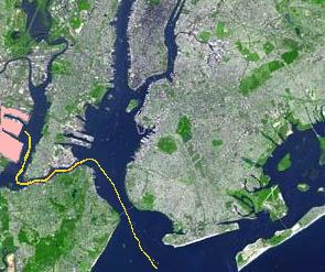 Port Newark-Elizabeth Marine Terminal showing shipping approach in New York Harbor in the United States. Based on original public domain image courtesy of NASA (TERRA satellite) © 2004 Matthew Trump